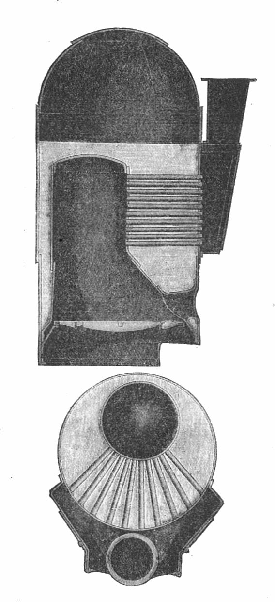 Blake vertical boiler